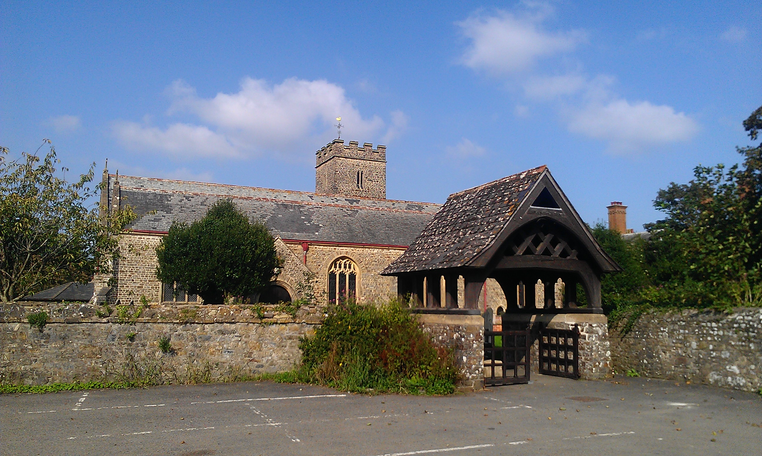 The entrance to St. Peter's Church in Fremington, Devon.